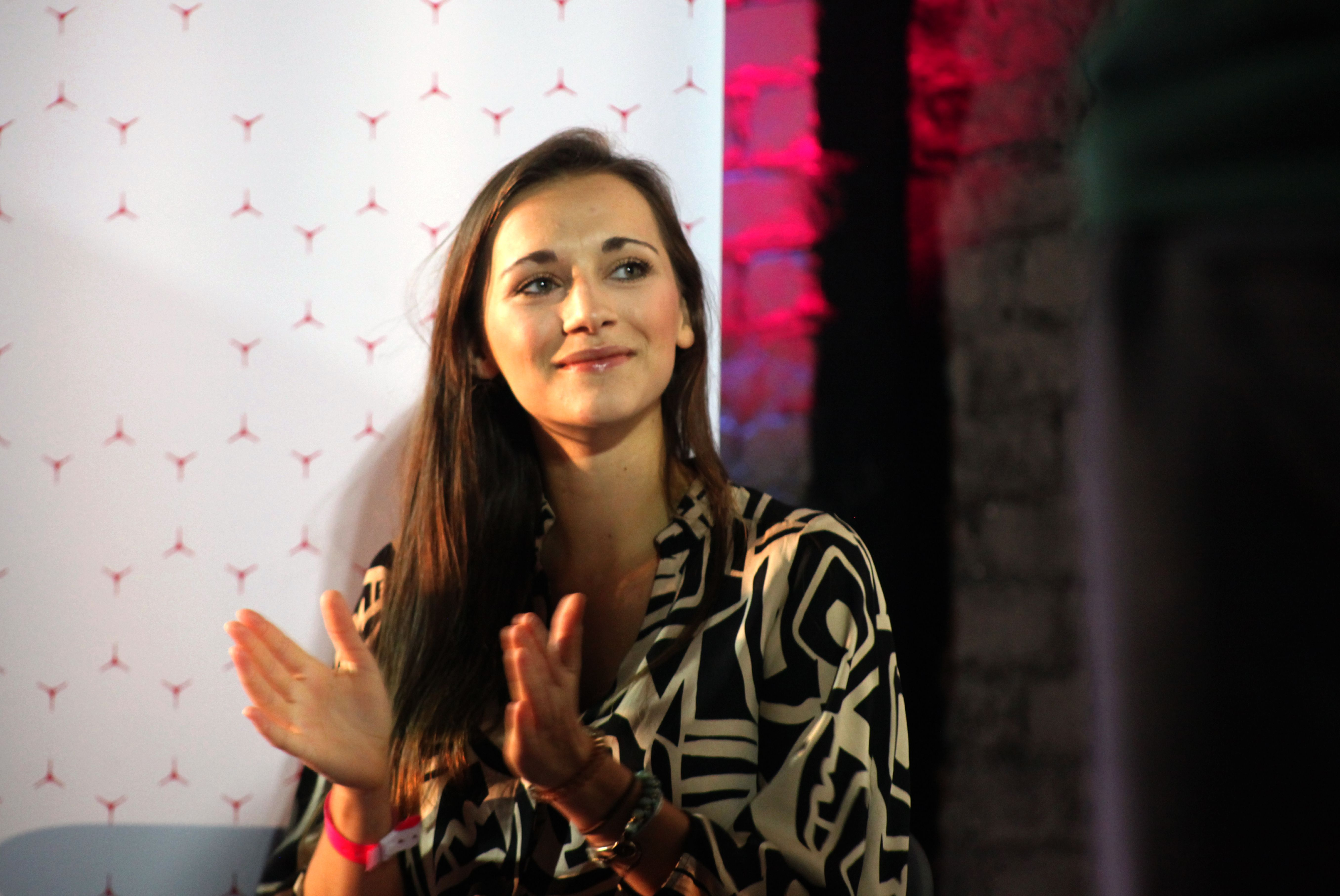 Grace Blakeley at "The World Transforned" #TWT in Liverpool in September 2018